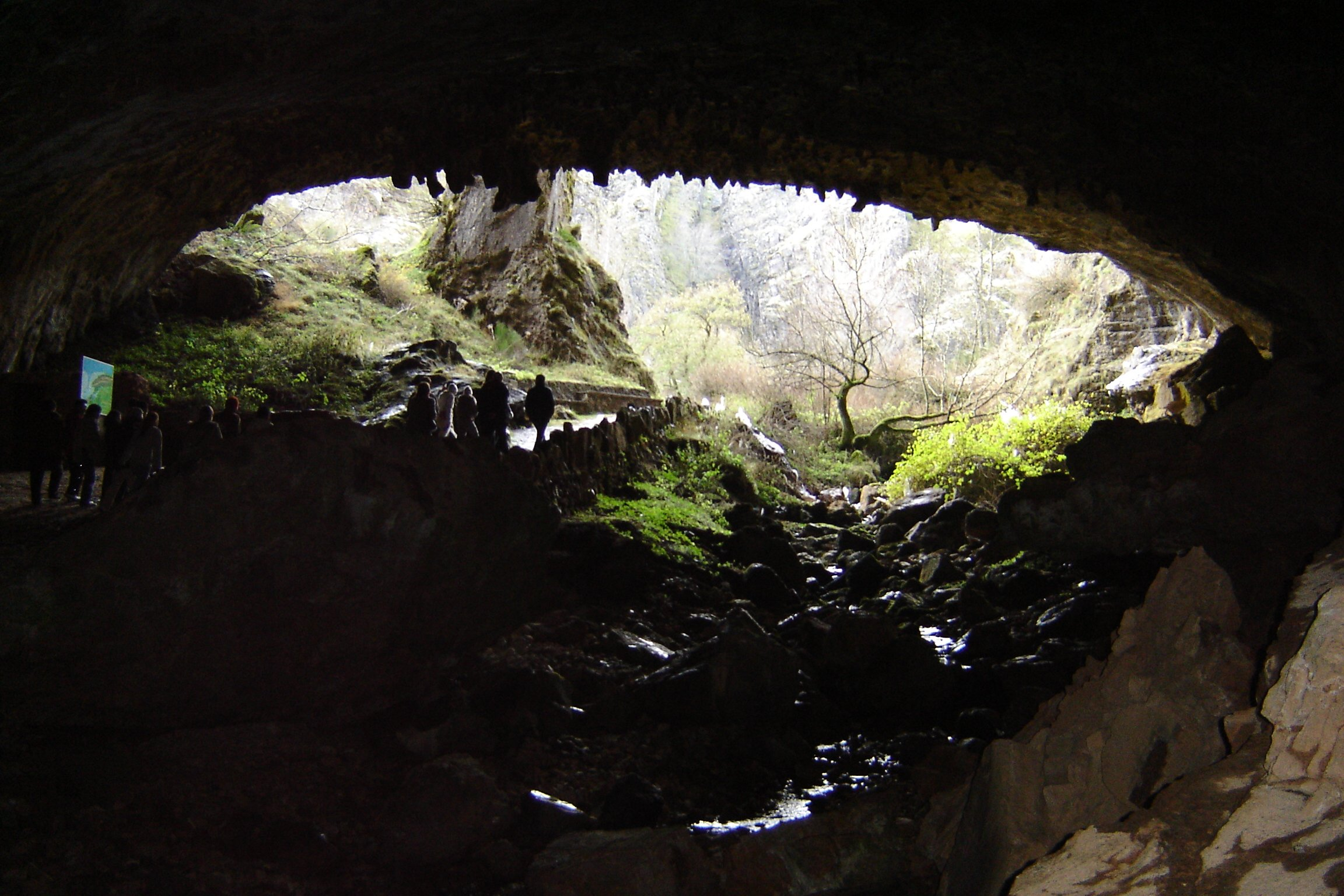 Mouth of Cave